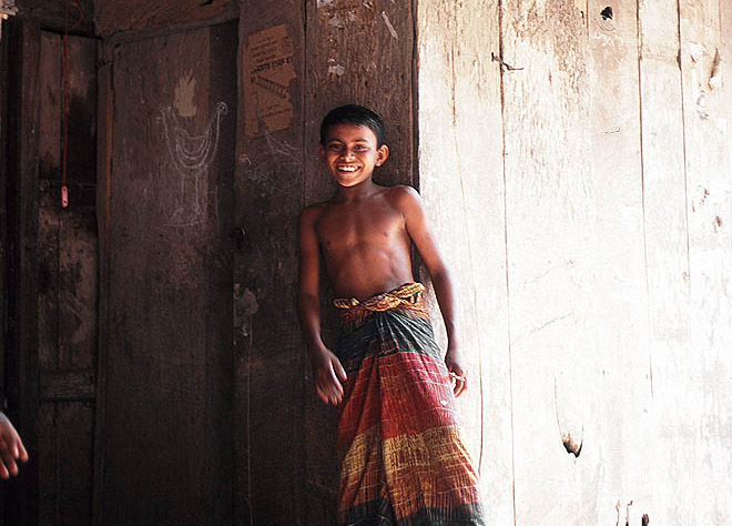 A Bengal boy wearing a lungi, a traditional dress.